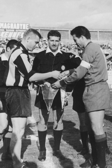 Mario Corti, captain of Catania (right), exchanges badges with IF Hammarby captain (left); referee is Concetto Lo Bello